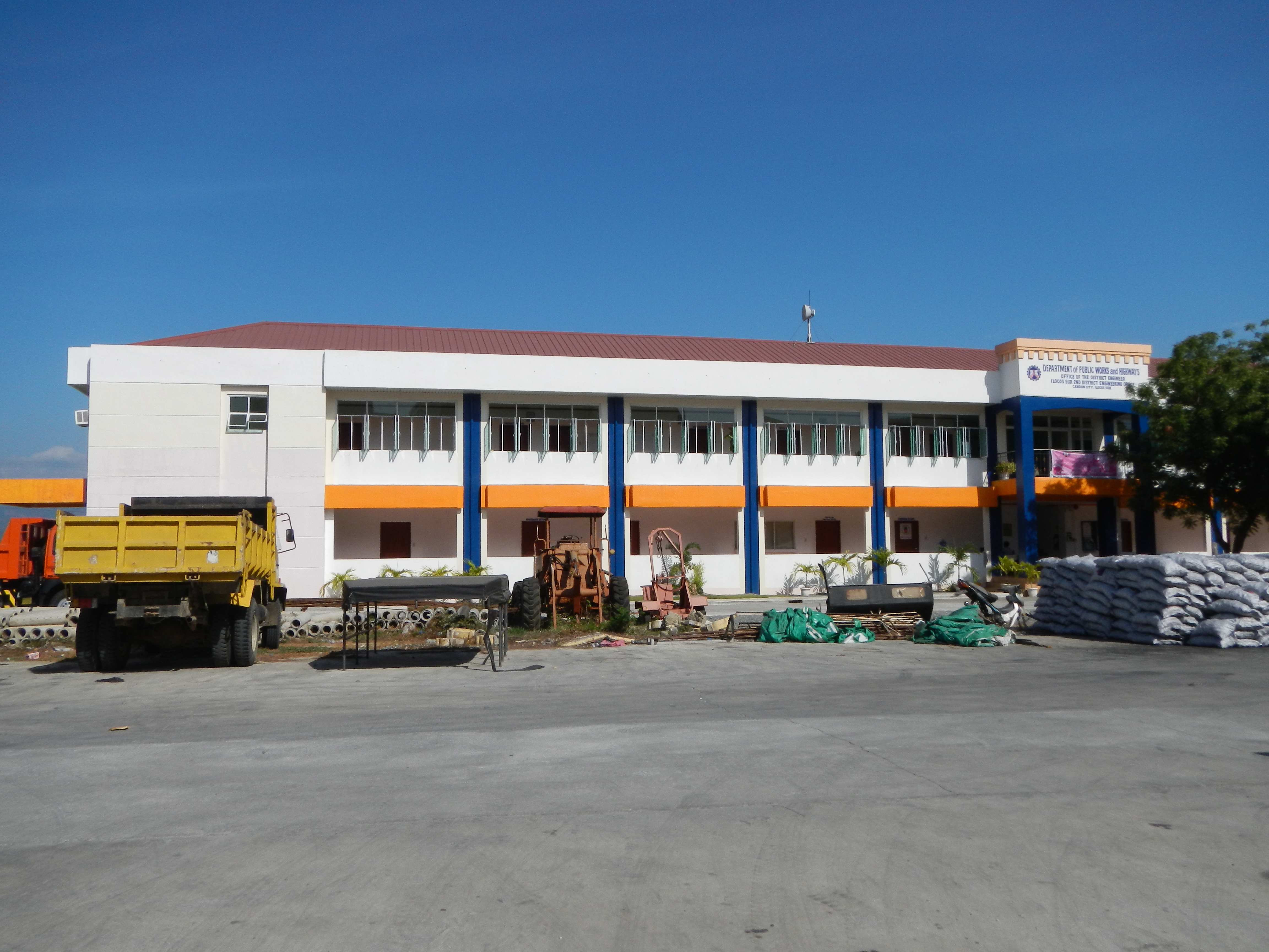 Candon City Hall Barangay Calaoa-an, Ilocos Sur province, along the Manila North Road or Pan-Philippine Highway.